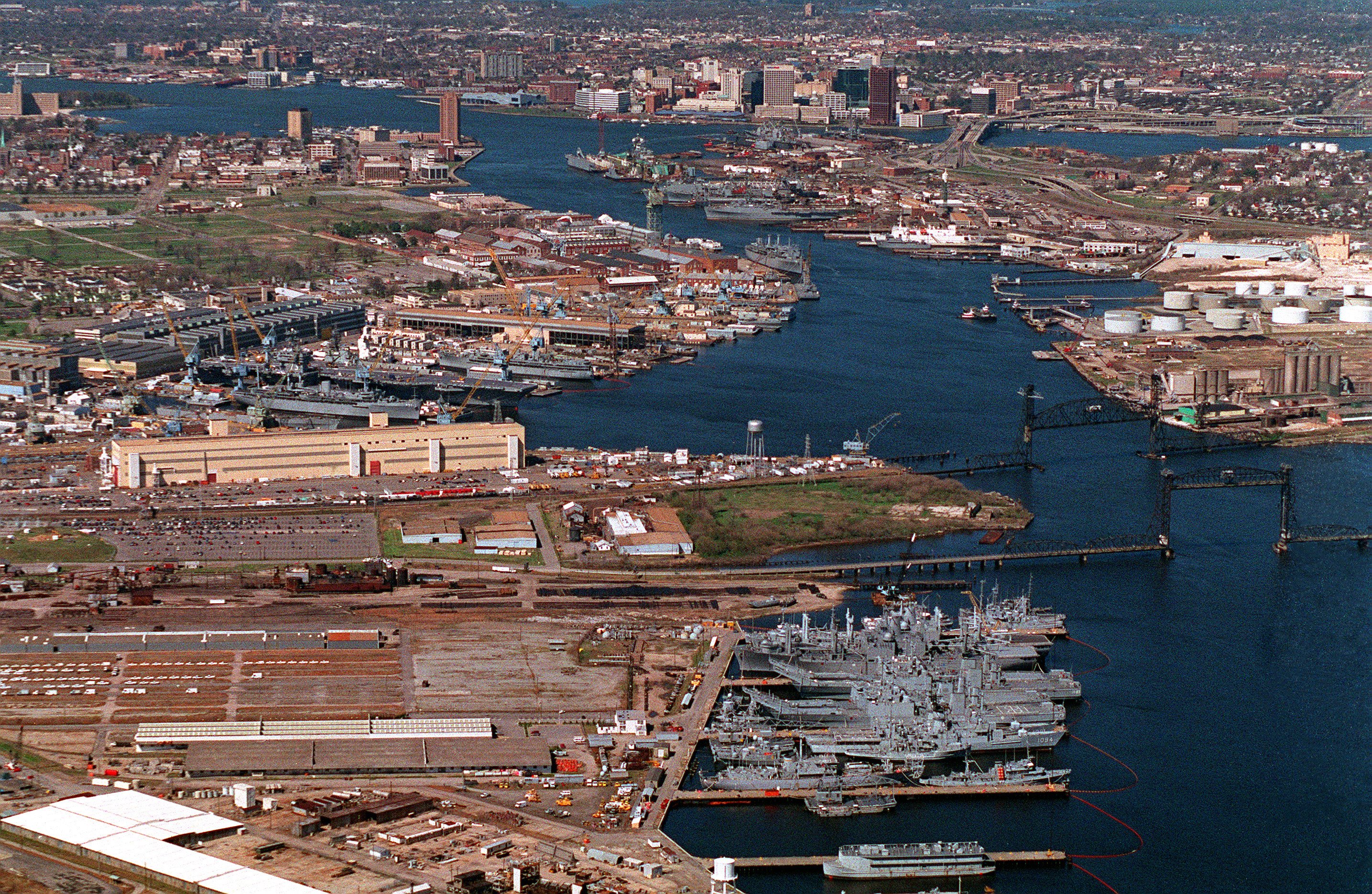 An aerial view of the U.S. Navy Norfolk Naval Shipyard located on the Elizabeth River, Virginia (USA), in 1995. At the bottom right is the South Gate Annex where ships of the mothball fleet are stored. At left center is the main shipyard. Futher back on the righthand side of the river is the Norfolk Shipbuilding & Drydock Company (NORSHIPCO). The city of Norfolk is in the background.